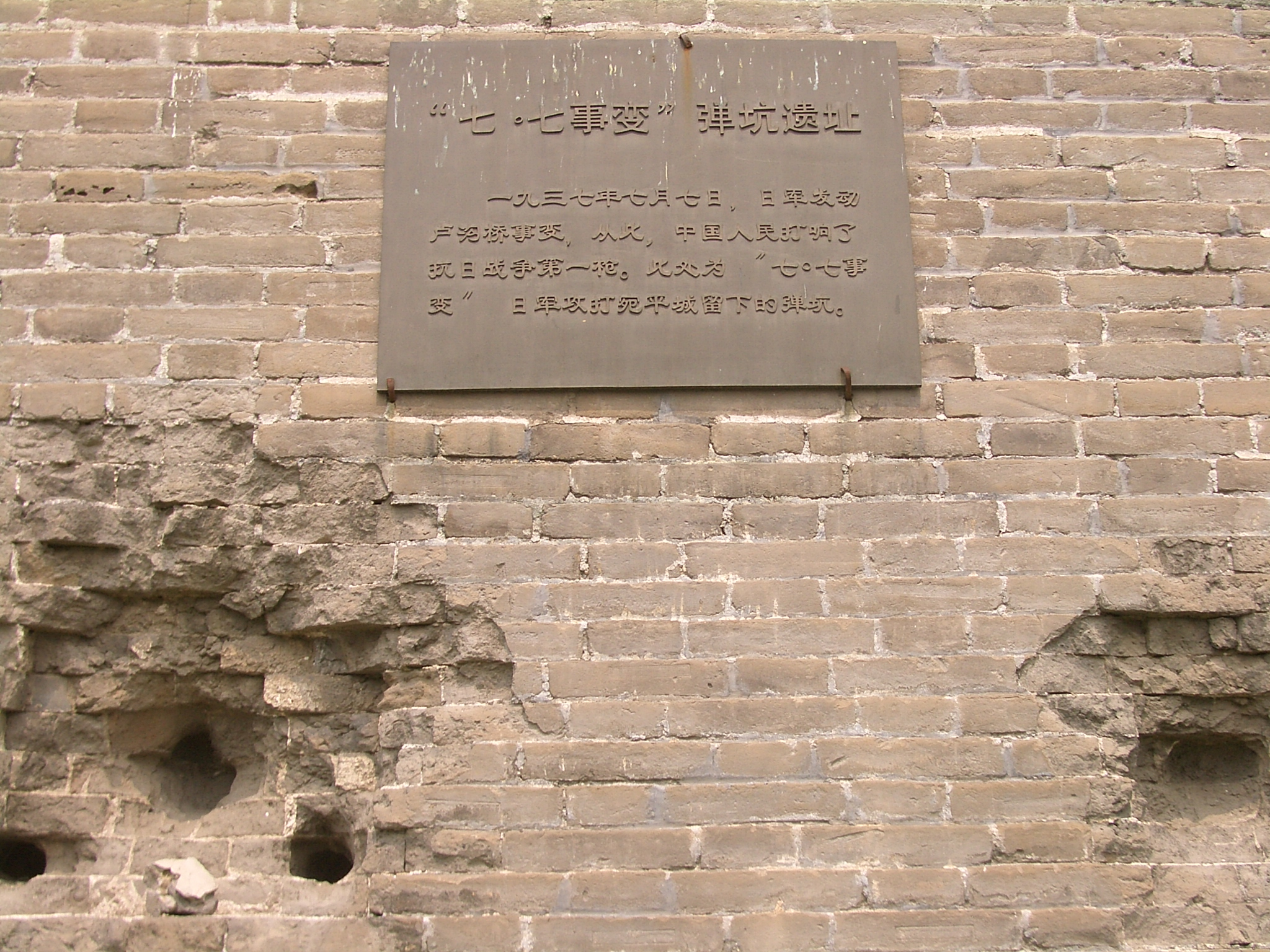 At the south wall of the Wanping Castle in Beijing. The spot damaged by the Japanese shelling during the Marko Polo Bridge (Lugouqiao) Incident in 1937 are marked with a memorial plaque. The text on the row of black stone drums along the walls tells the story of the War againt Japan that followed the incident.